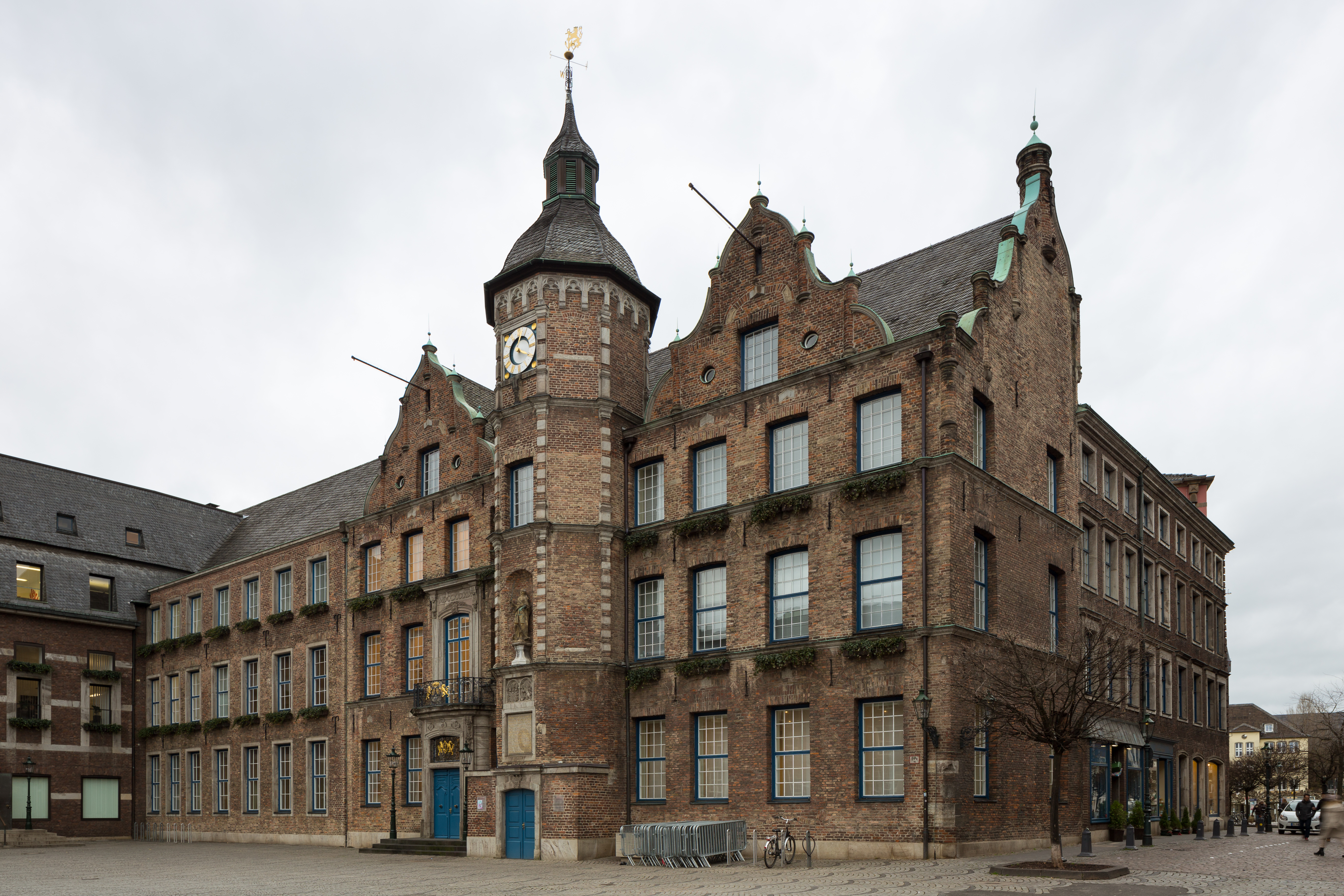 Duesseldorf old townhall located at the market square in Altstadt quarter of Duesseldorf, Germany.